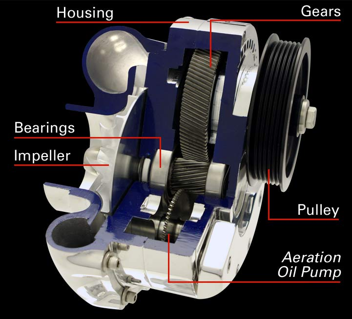 This is a cutaway diagram showing the major components of the ATI ProCharger Supercharger